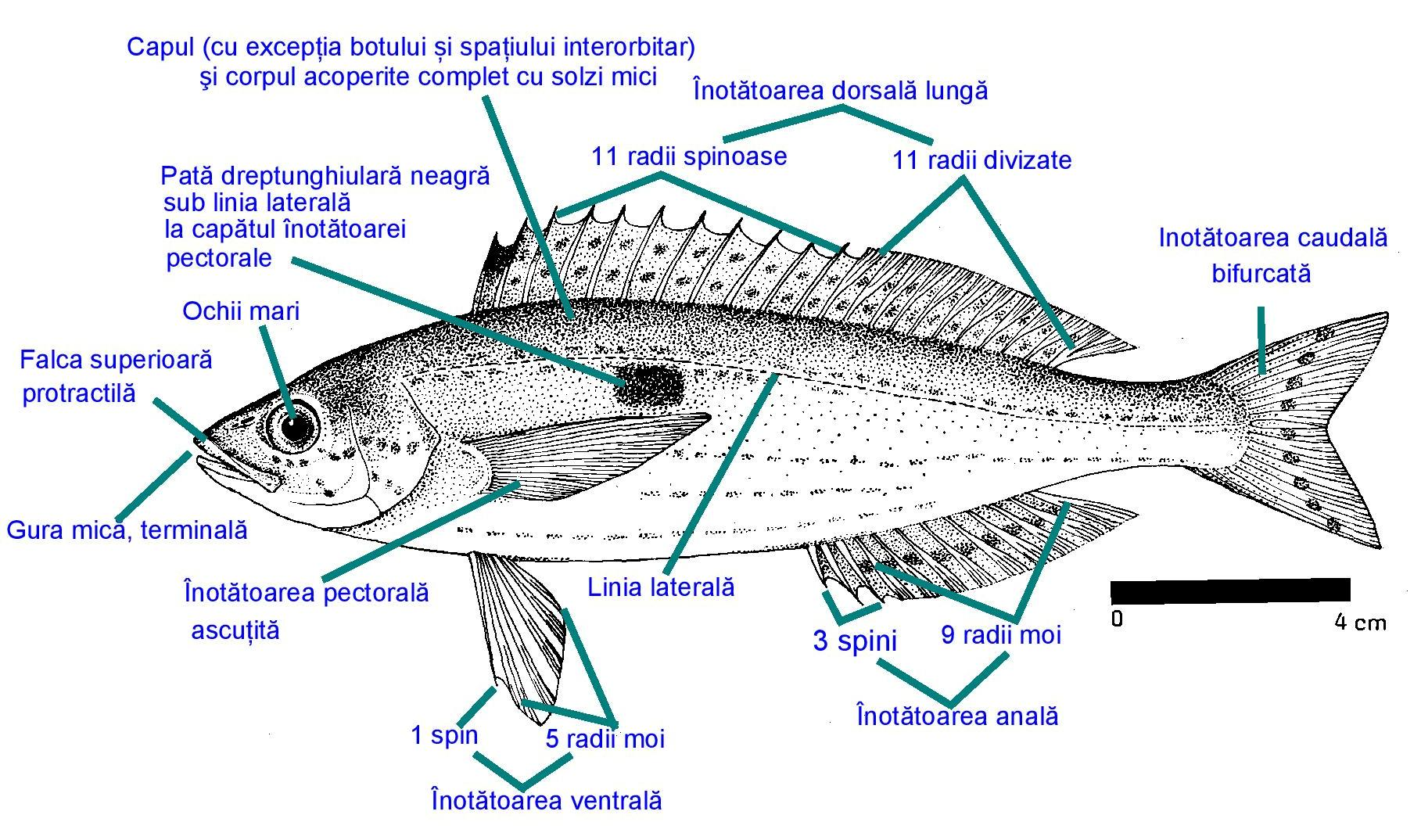 Spicara smaris